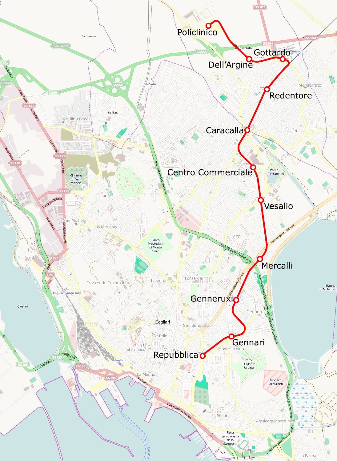 Map of Cagliari light rail.